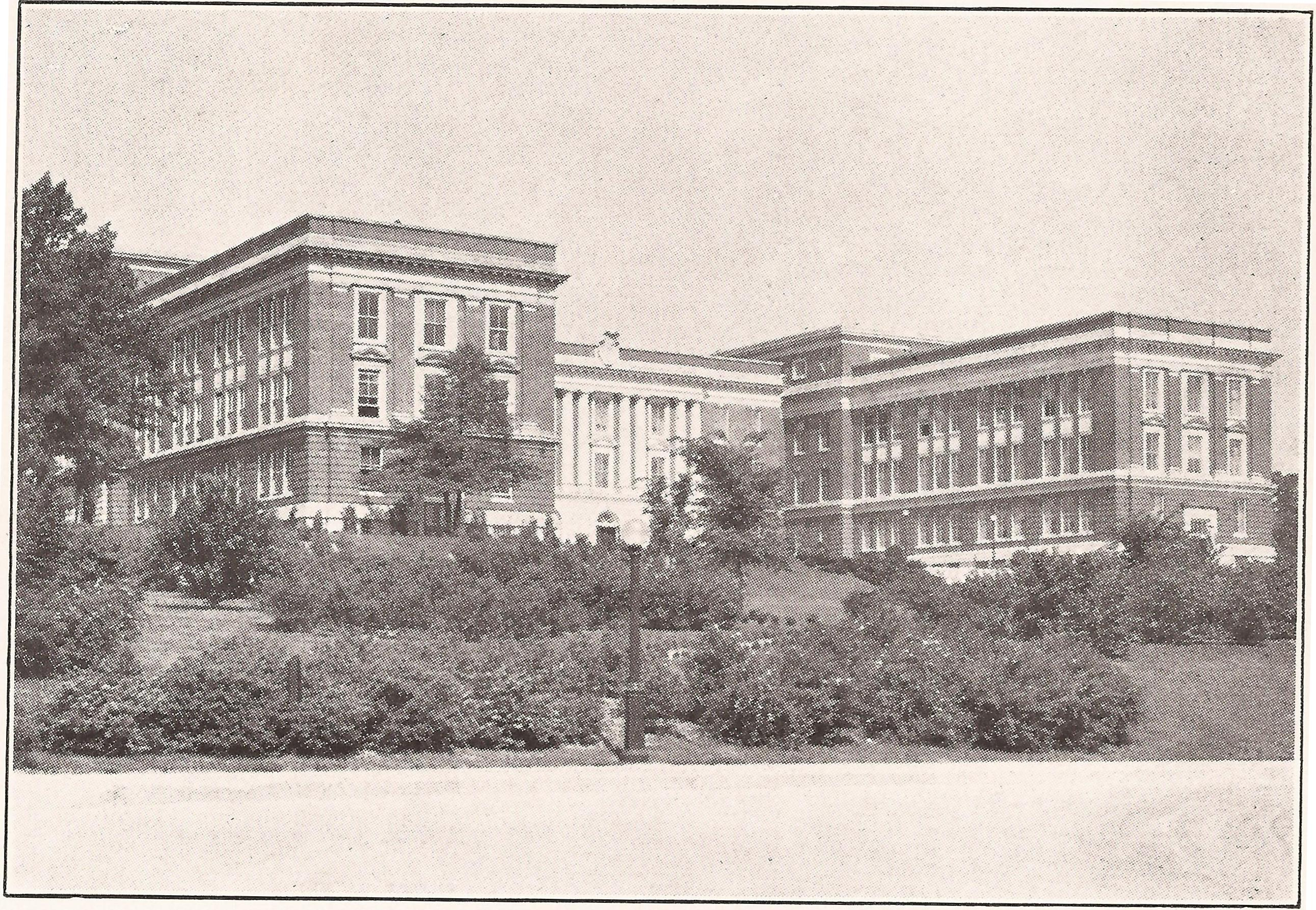 Building 40, Army Medical School, 14th and Dahlia Streets, Washington, D.C., USA (Circa 1930s)